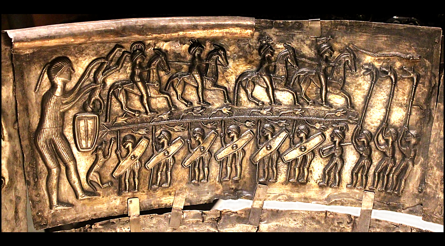 Gundestrup cauldron, interior plate 2. Copy by galvanoplasty, museum of Bibracte, exhibition at the Cité des Sciences, Paris ("Les Gaulois, une expo renversante").